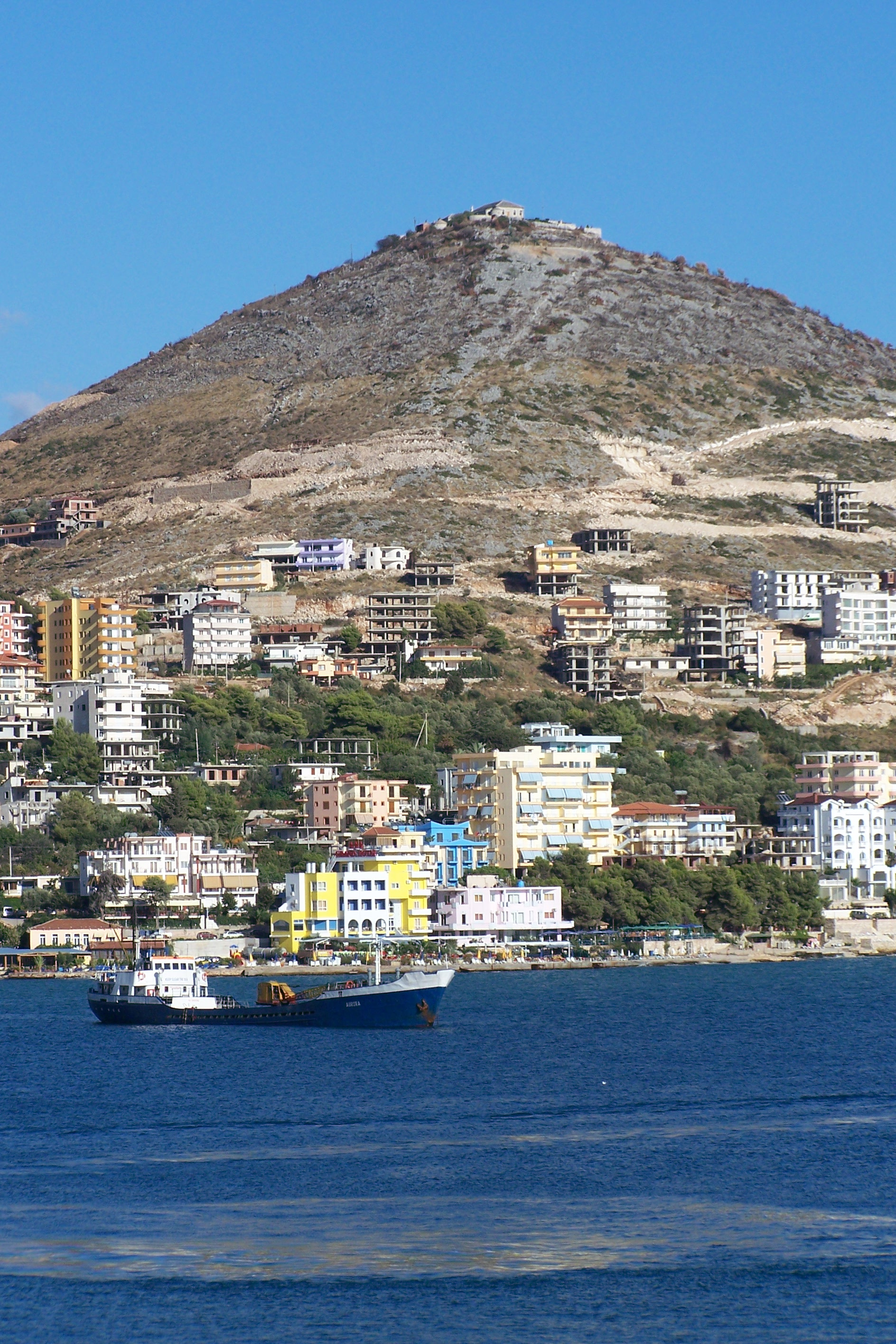 Sarandë, Albania: uncontrolled construction on the slopes of Lekursi